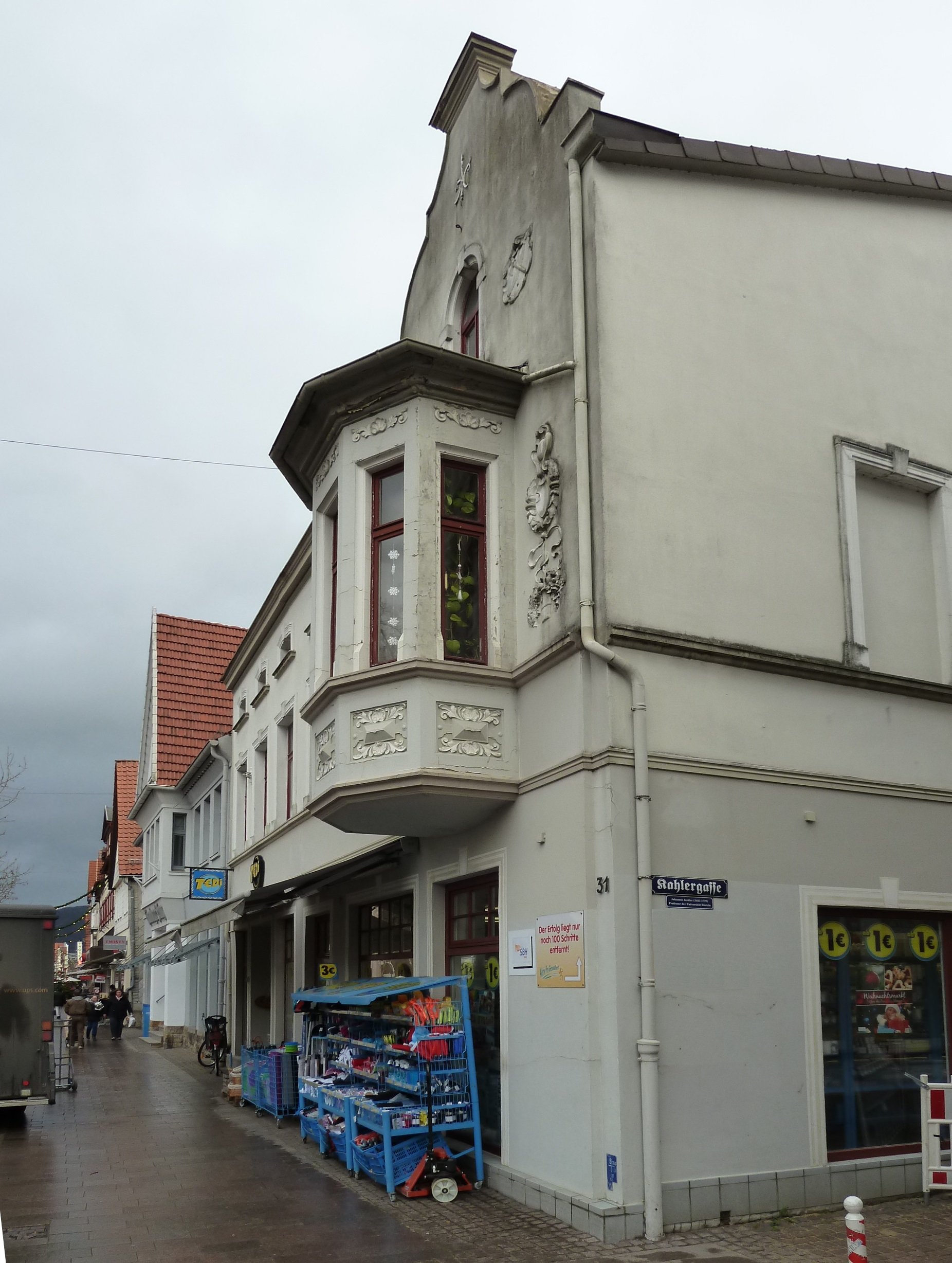 House Nr. 31 Klosterstr. / Kahlergasse